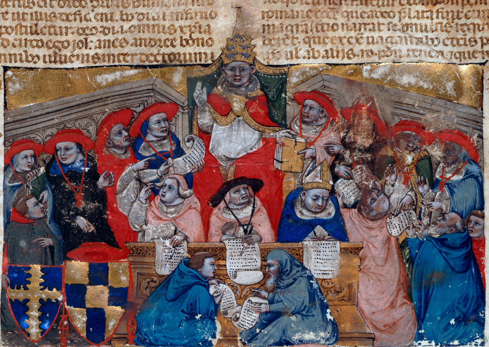 Decretals of Pope Boniface VIII - zoomed on the illustration. The source says: "The book’s only illustration (image no. 1) appears on the opening page of the manuscript and shows Boniface consulting his cardinals, who assisted him in the governance of the Church and advised him on matters of faith and discipline. Scribes of the papal chancery (the office responsible for the production of official documents) are shown recording the proceedings."